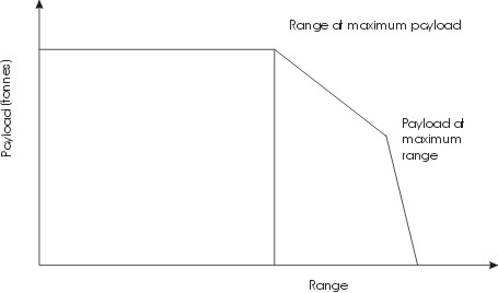 author: philip poppe